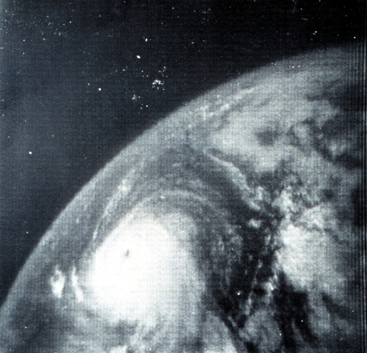 This image shows Hurricane Betsy in the Gulf of Mexico in September of 1965 as taken by the TIROS VIII weather satellite.